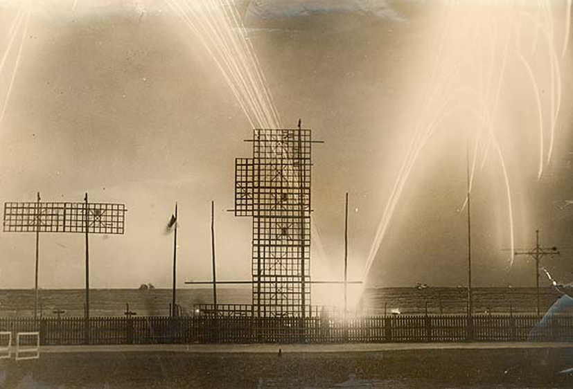 An unusual photo, this one, of fireworks at the First Tailteann Games or Aonach Tailteann, which took place at Croke Park, Dublin between 2nd and 17th August 1924. For anyone interested in more about this amazing sporting and political phenomenon, read this blog post from The Irish Story . Date: 15 August 1924 NLI Ref.: HOG188